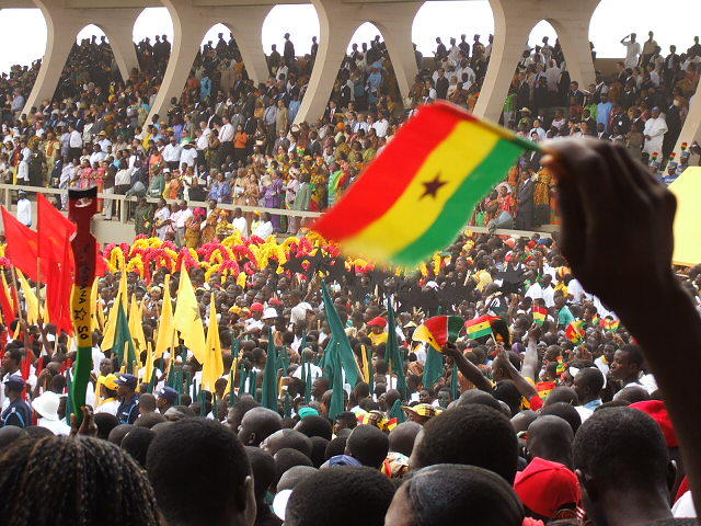 A minitature flag of Ghana